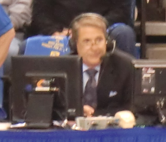 Steve Lappas announces the San Diego State-San Jose State men's basketball game for CBS Sports Network, at the Event Center in San Jose, Calif. on Feb. 21, 2016.